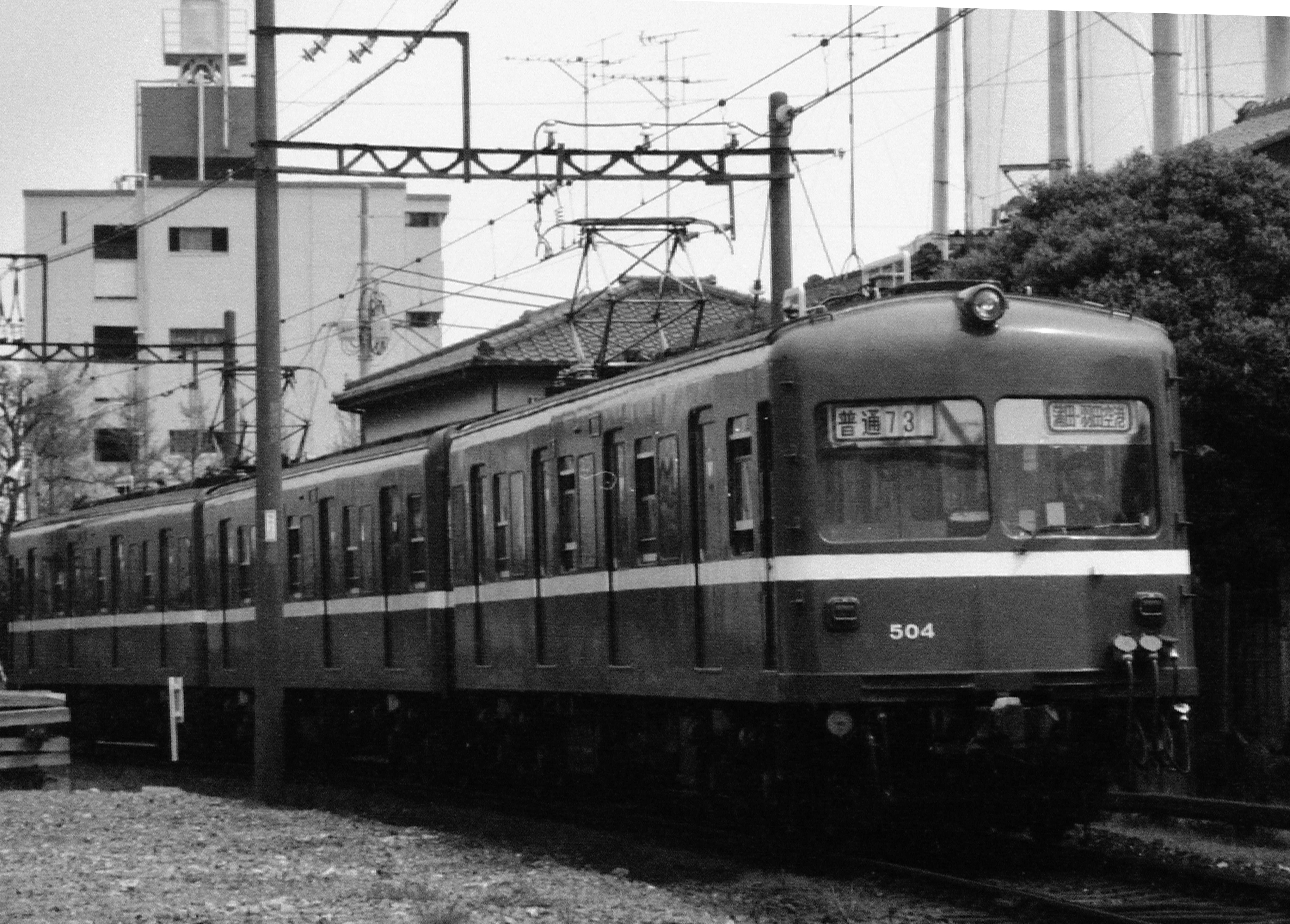 Keikyu unit 503 running between Anamori Inari and Haneda Airport(old station)